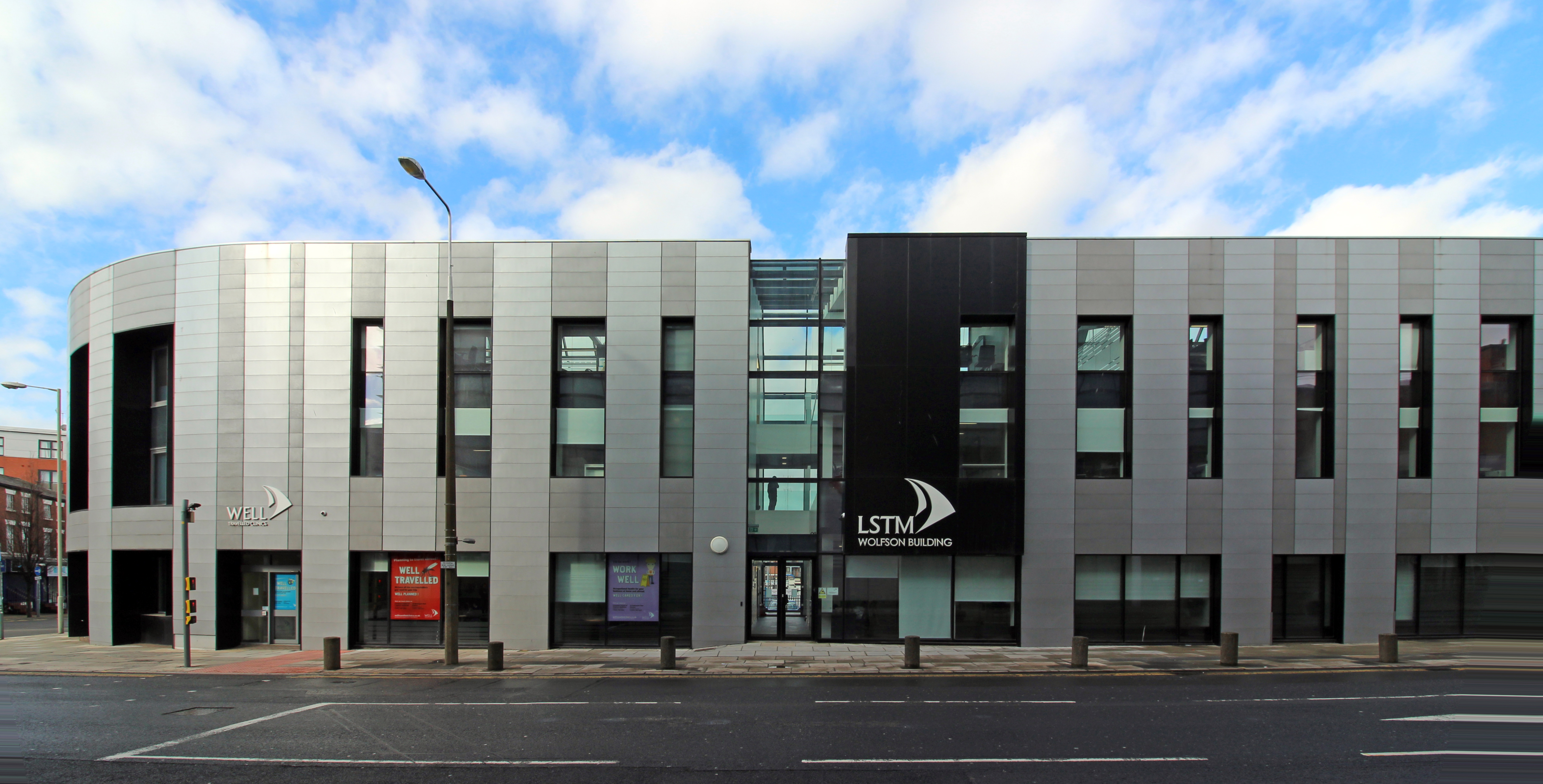 New building for the Liverpool School of Tropical Medicine opened in 2014.